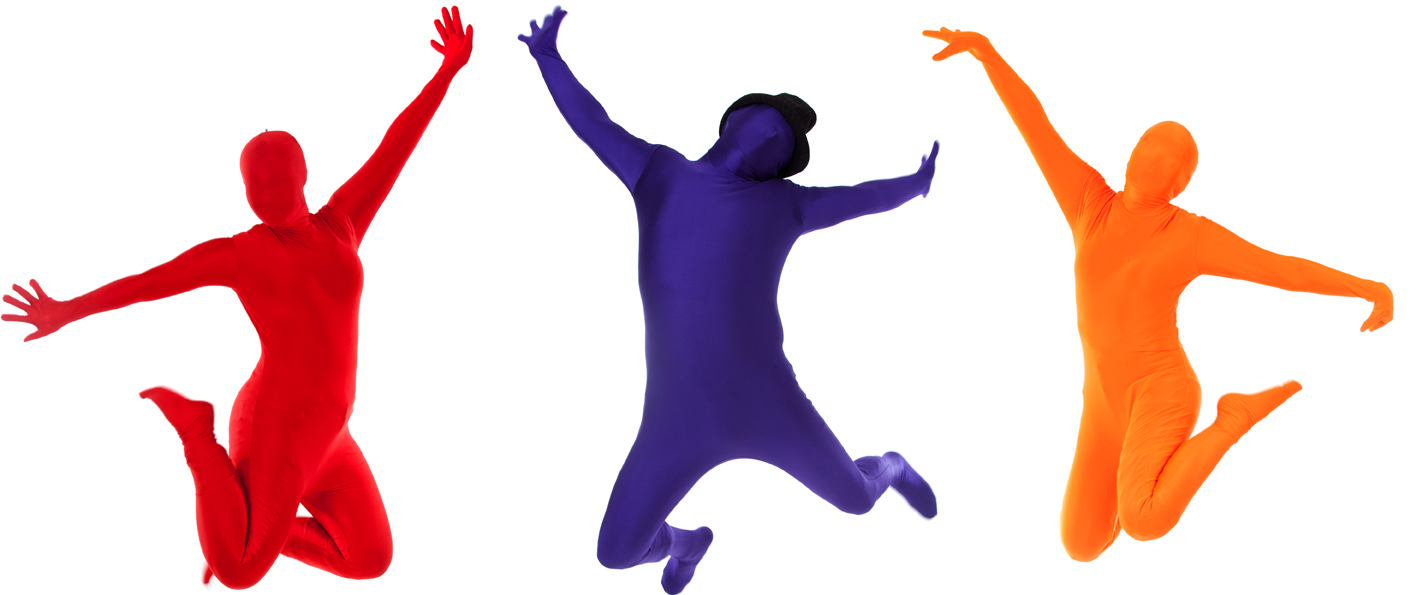 Photoshoot.